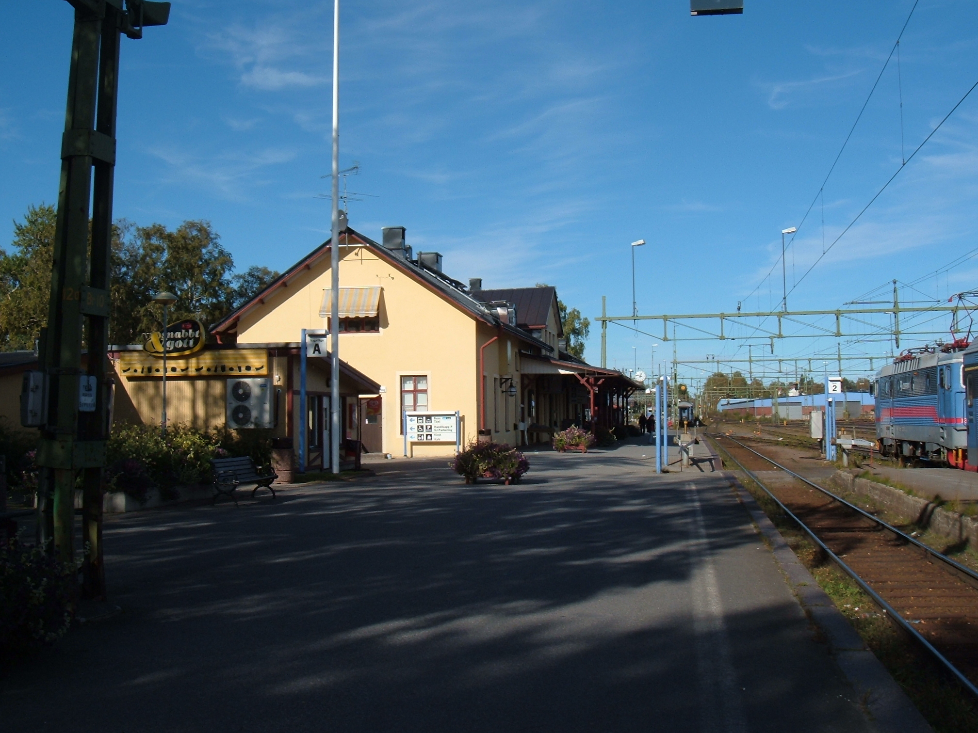 Luleå Central Station